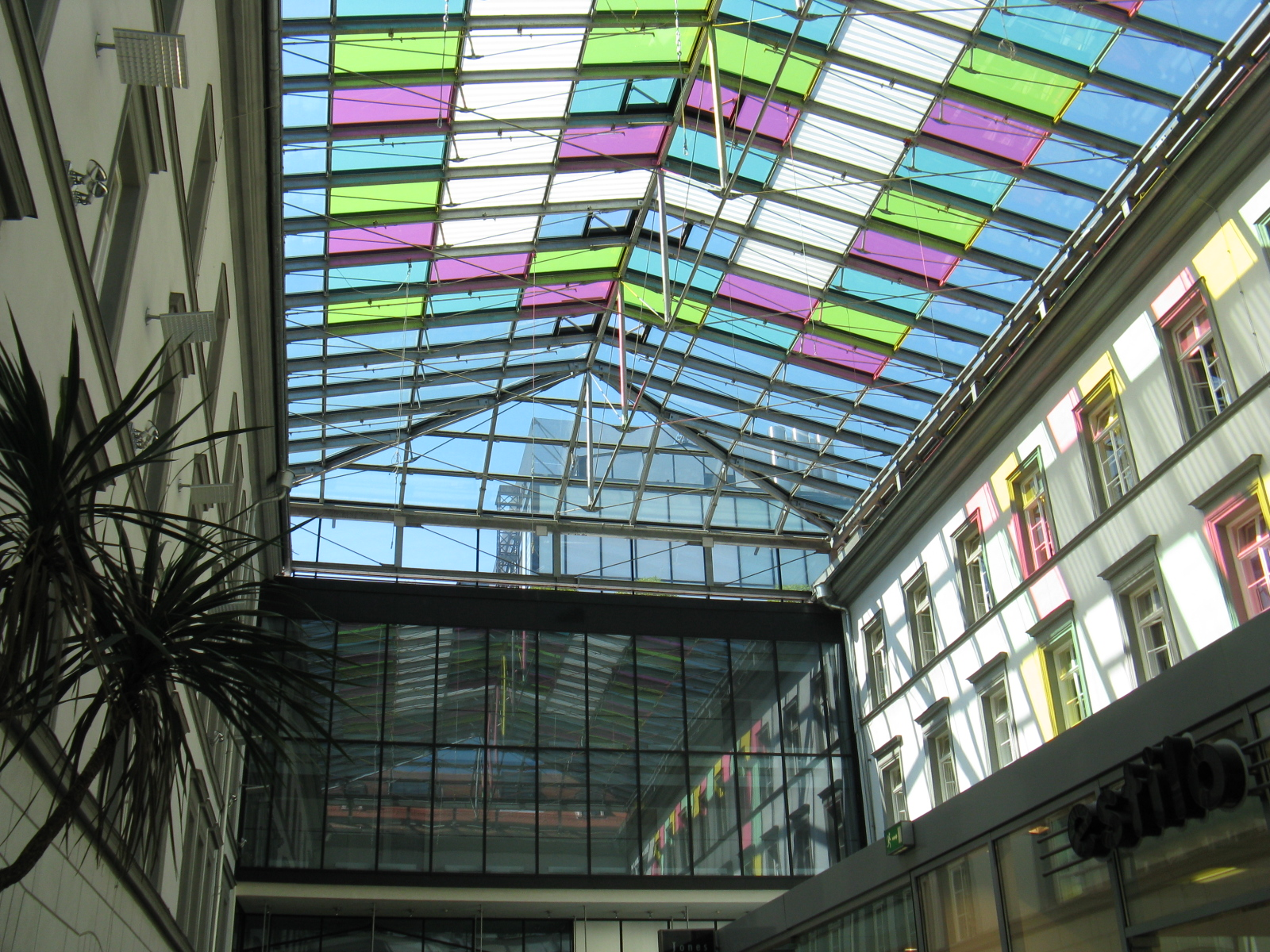 interior view of new town hall of Innsbruck